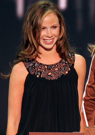 Barbara and Jenna Bush deliver remarks and introduce their father, President George W. Bush, who appears via satellite, Aug. 31, 2004, to introduce Mrs. Laura Bush, during the Republican National Convention at Madison Square Garden in New York City. Photo by Paul Morse, Courtesy George W. Bush Presidential Library & Museum